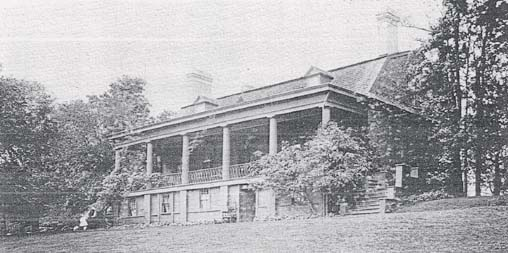 Antill-Ross House in Piscataway Township, New Jersey. Built 1739, destroyed 1954-1958. Home of colonial politician Edward Antill 2nd and later Dr. Alexander Ross. From 1900 publication, photo 1900 or before. Other information Antill-Ross House in Piscataway Township, New Jersey. Built 1739, destroyed 1954-1958. Home of colonial politician Edward Antill 2nd and later Dr. Alexander Ross. Antill owned a large plantation in Piscataway, orchards and vineyards for which he was recognized by the Royal Society of Arts in 1767.